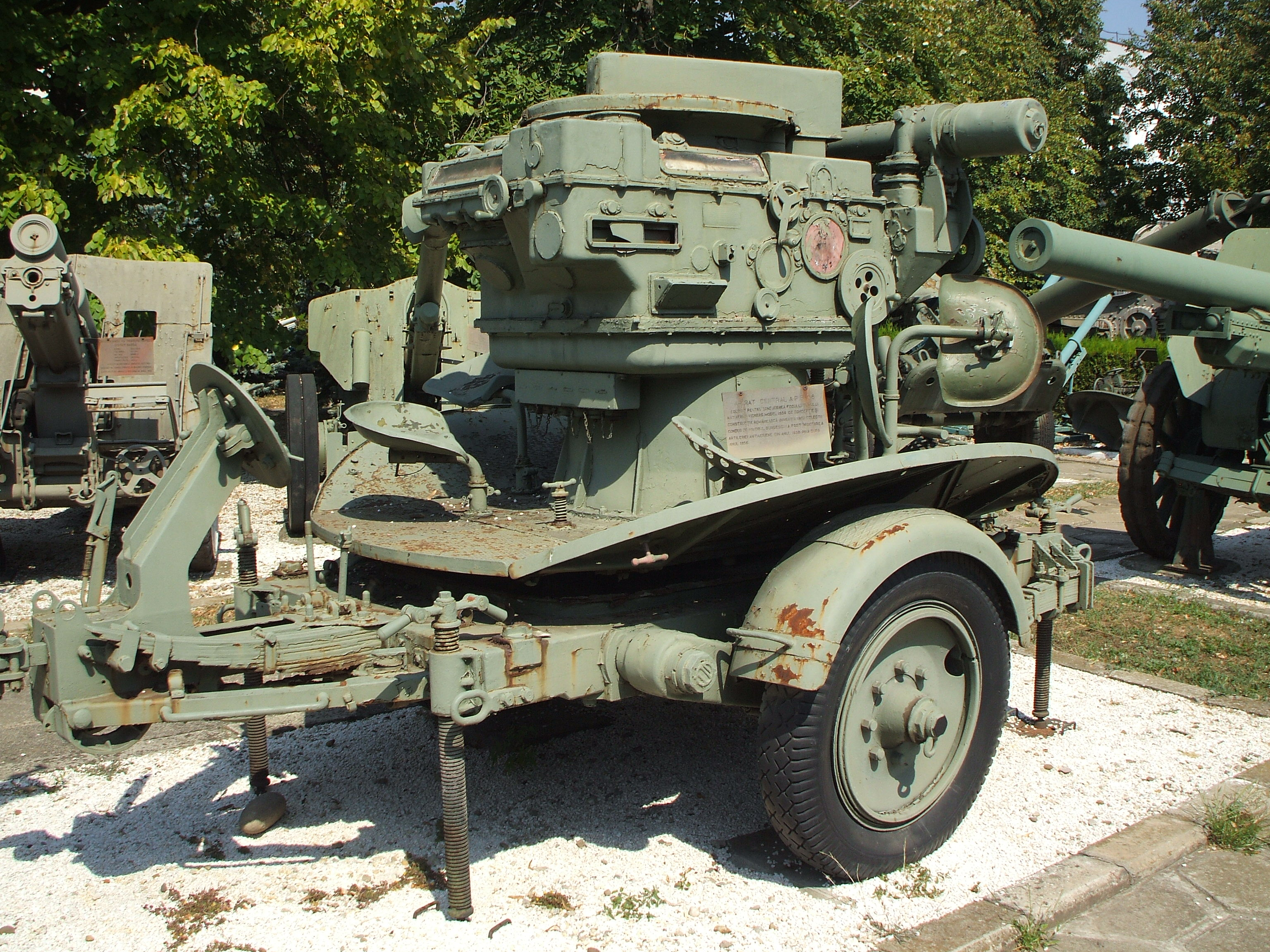 The Bungescu model 1938 AA fire control system on display at the National Military Museum in Bucharest.